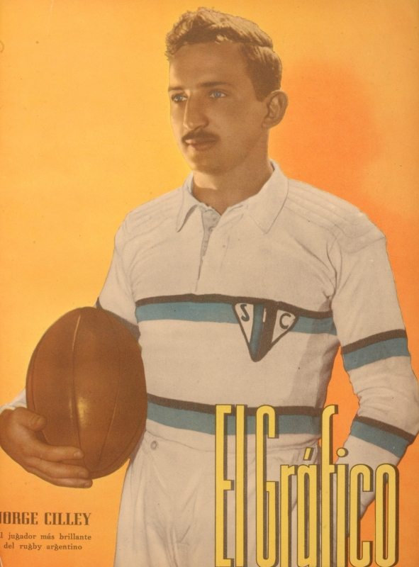 Argentine rugby union player Jorge Cilley, who played for San Isidro Club (SIC).